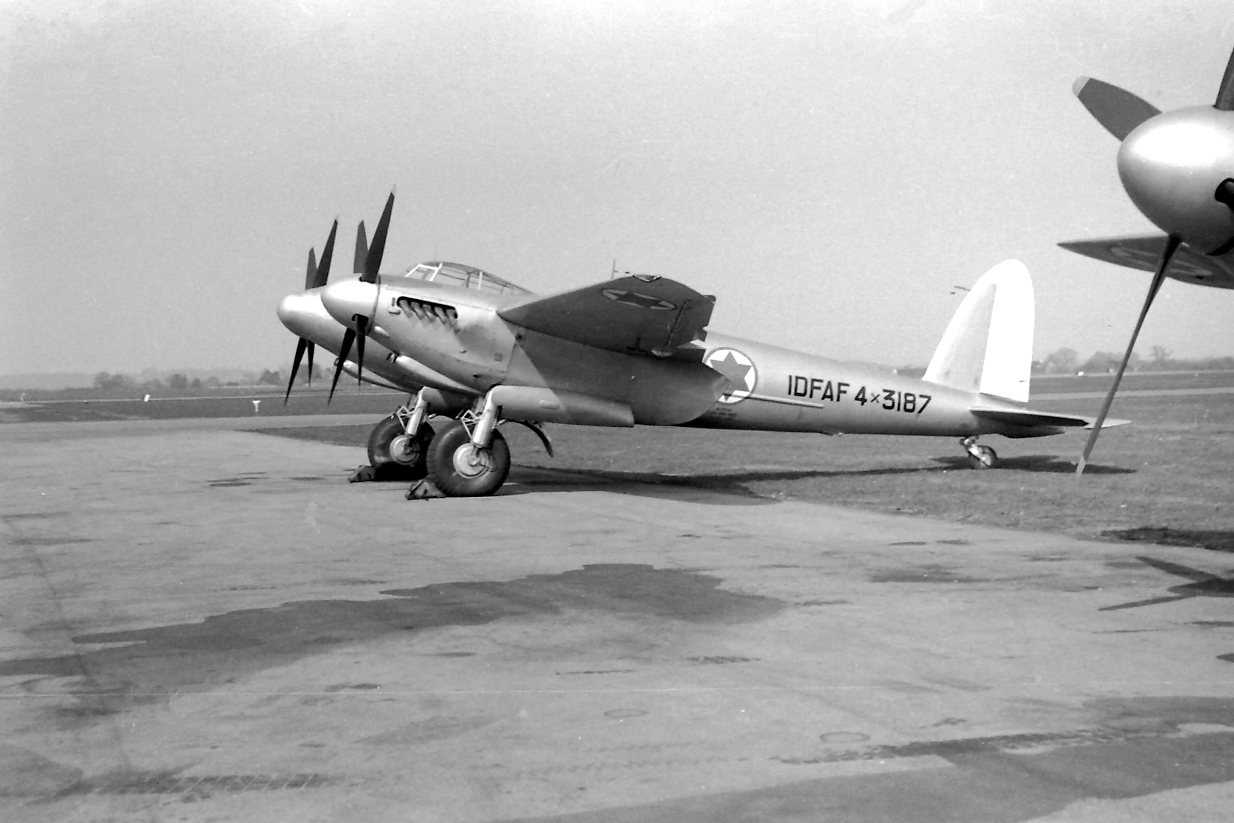 Israel Air Force DH98 Mosquito TR33